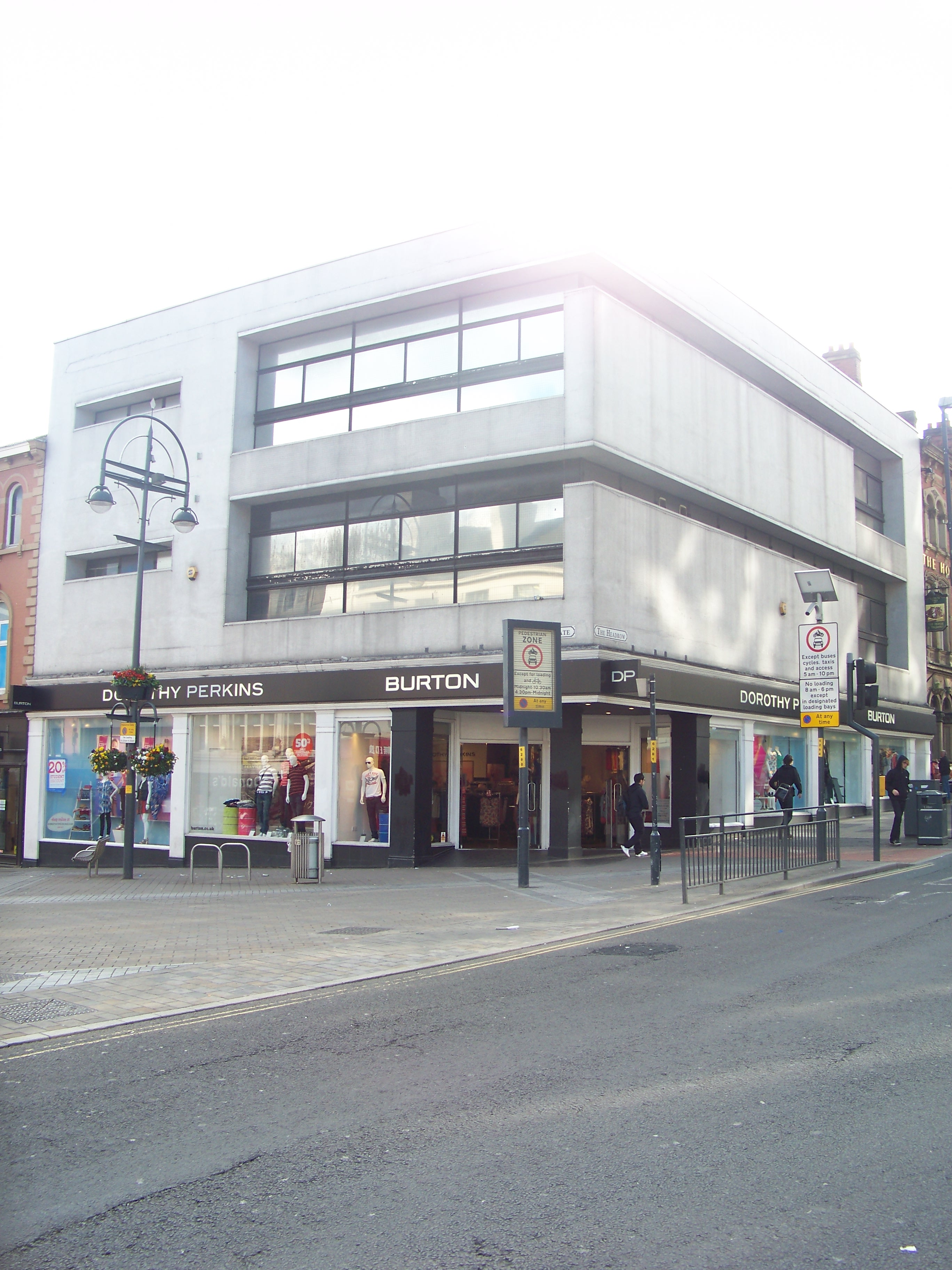 Leeds